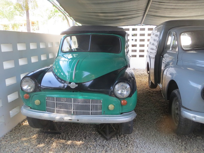 It is the first vehicle used by the Father of the Nation and the First President of Tanzania the Late Mwalim Julius Kambarage Nyerere